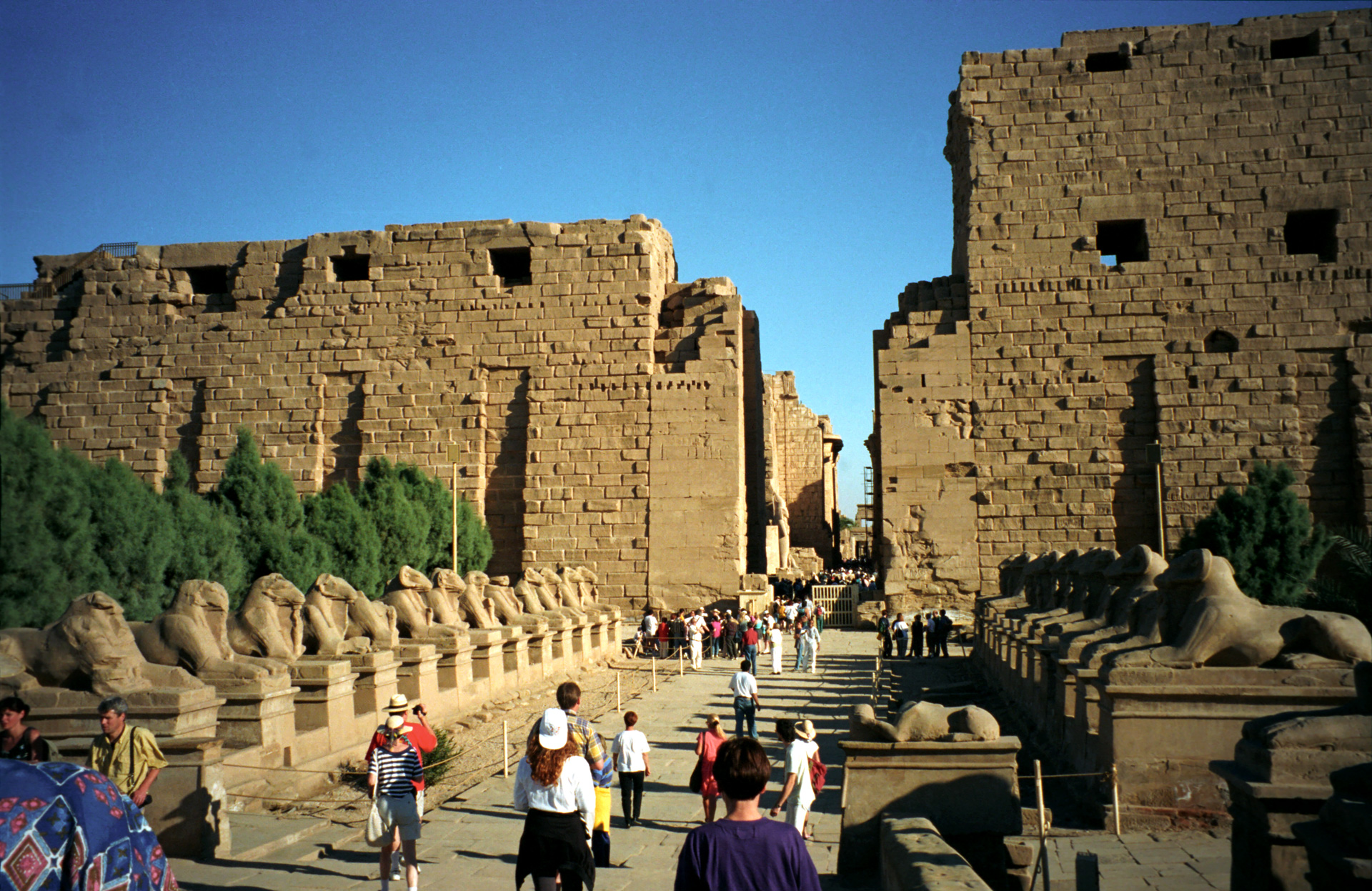 Karnak temple complex